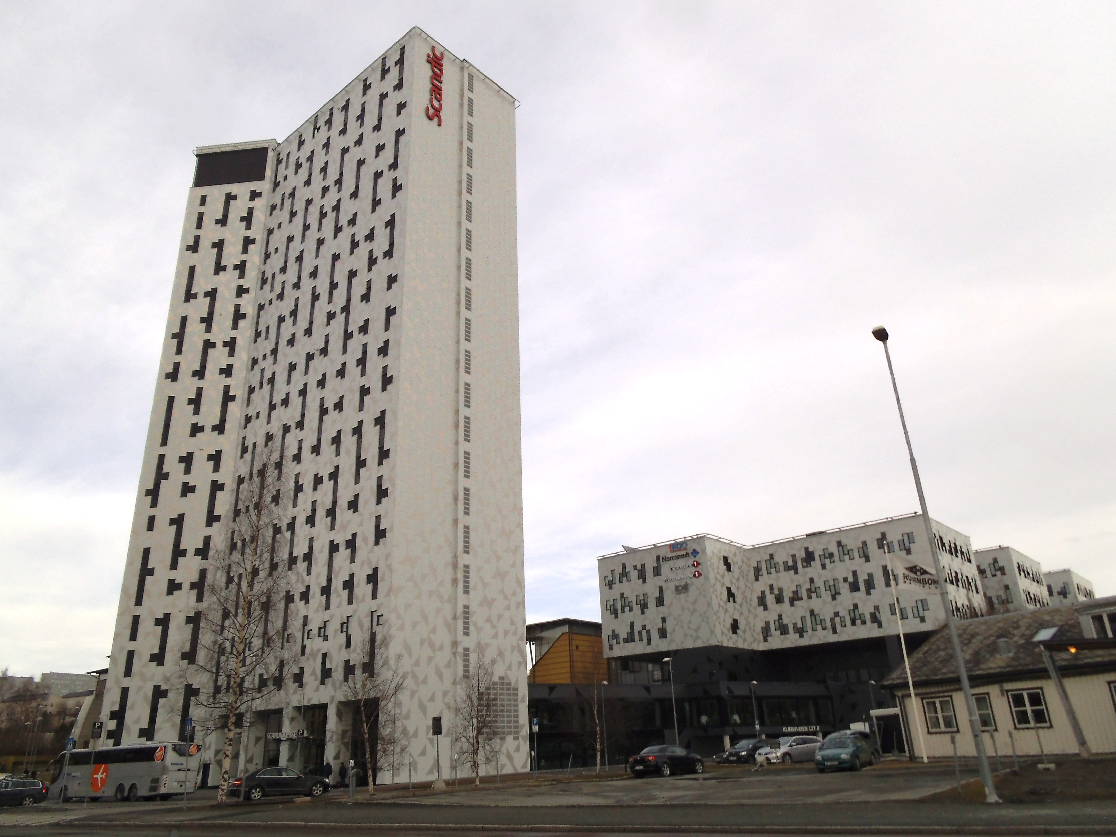 Scandic hotel in Lerkendal, Trondheim. Opened in 2014.